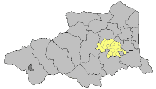 Canton of Tuhir in the french Pyrénées-Orientales department.